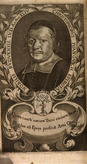 Cristoforo Ivanovich, illustration in his book Minerva al tavolino